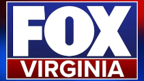 WAHU FOX27 logo as of Jan 2016